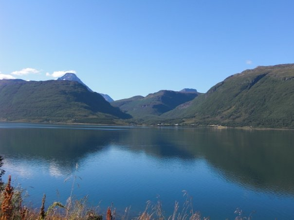 Storfjord